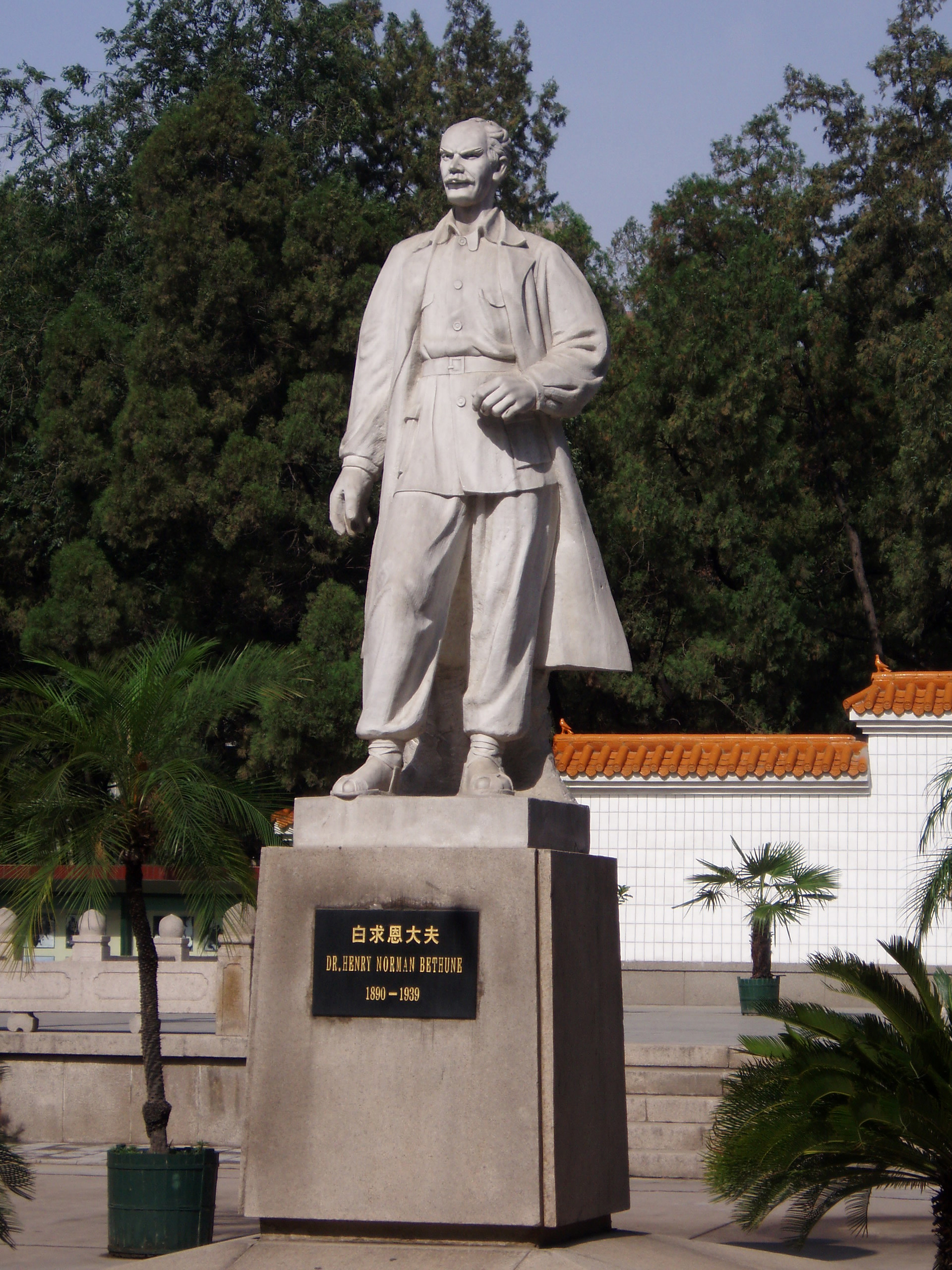 Norman Bethune statue in North China Martyrs’ Memorial Cemetery, Shijiazhuang, China